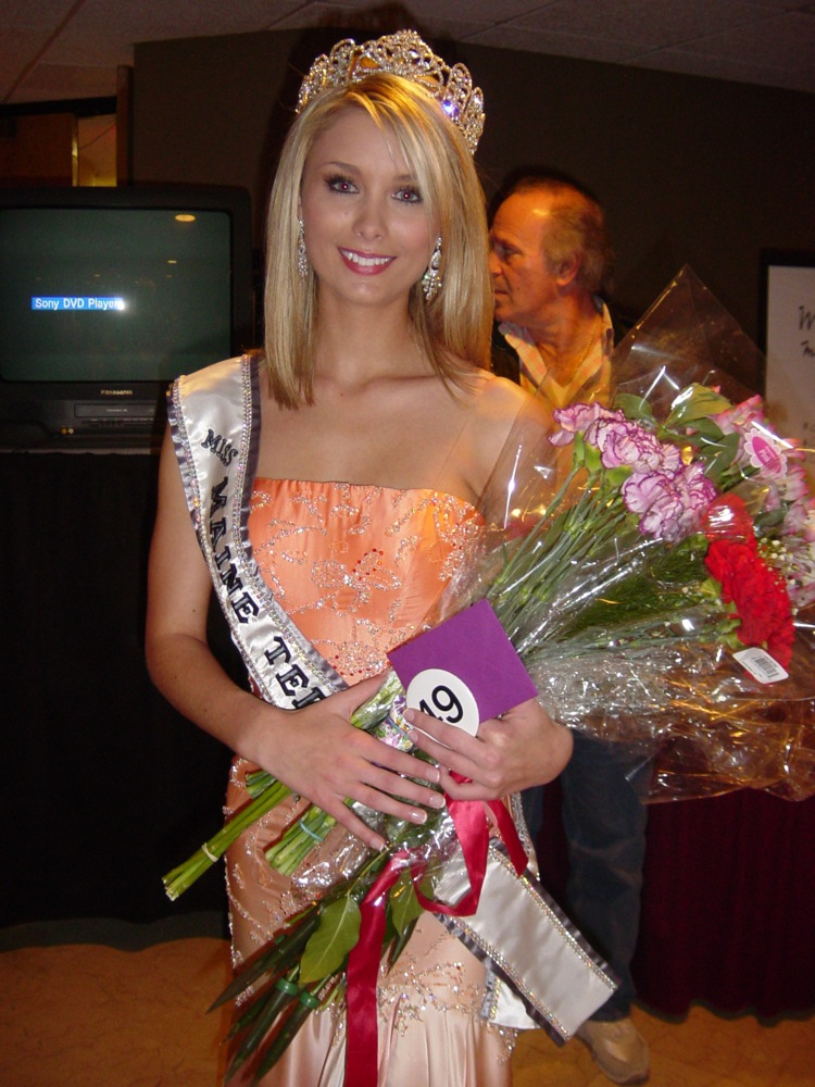 Donna Schlieper, after she was crowned Miss Maine Teen USA 2006